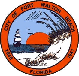 The official city seal of Fort Walton Beach, Florida.